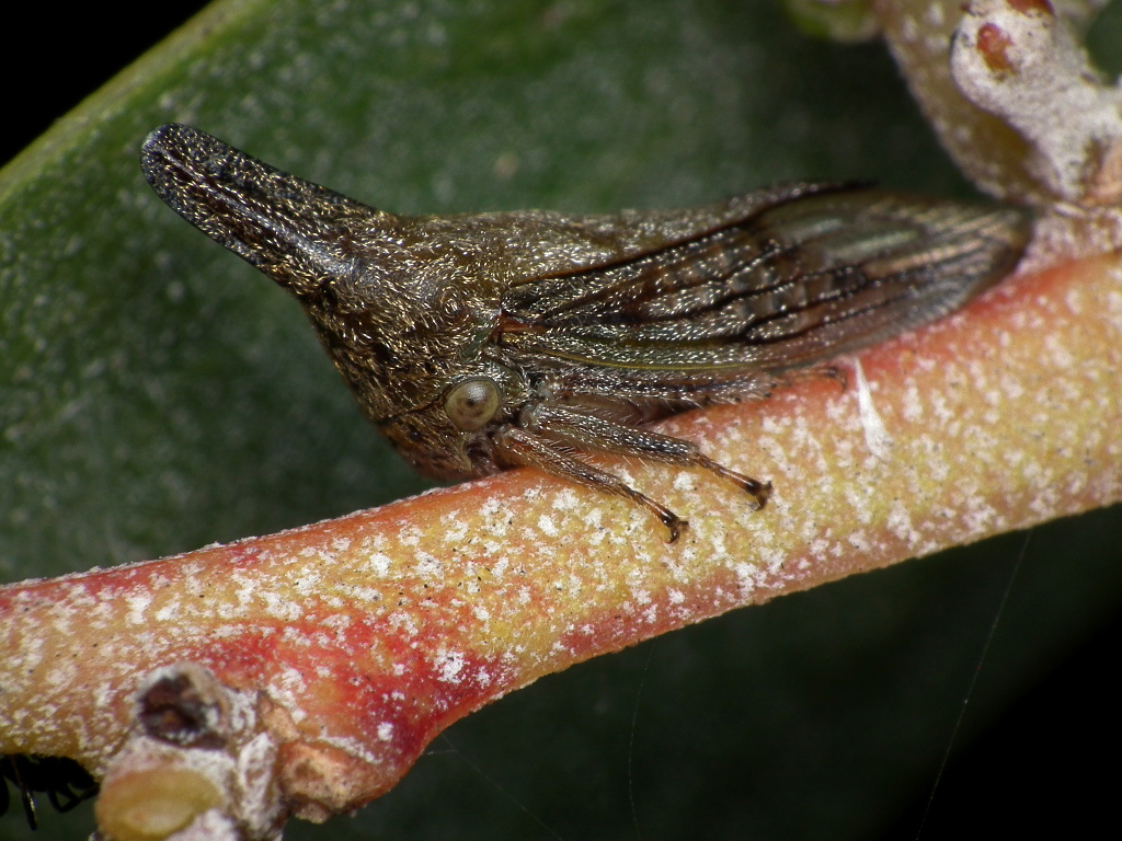 Lantana Treehopper - Aconophora compressa Family Membracidae These were introduced from Mexico to fight our multitude of lantana "weeds".